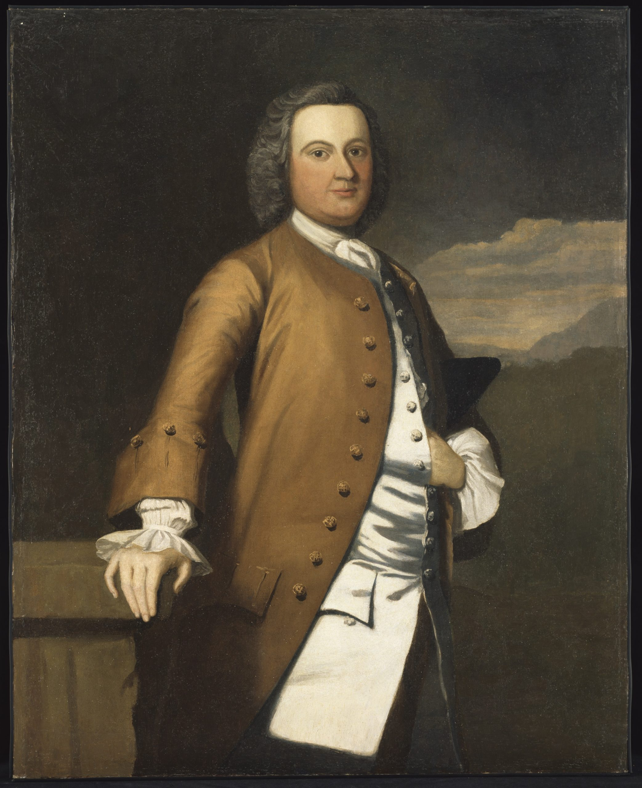 Dimensions: 50 11/16 x 40 11/16 in. (128.7 x 103.3 cm.)